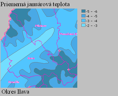 Average temperature in january.